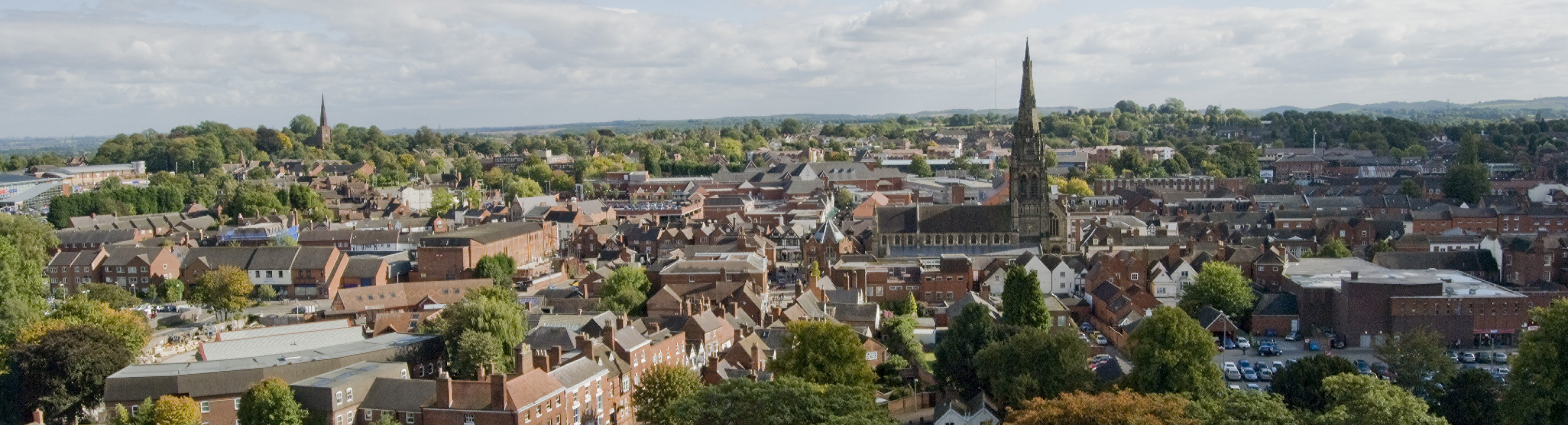 View of Lichfield from Cathedral Spire